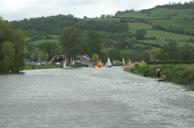 River Avon above Saltford Lock. Looking downstream towards Bristol Avon Sailing Club and Saltford Lock. The hills beyond Kelston on the right bank are near North Stoke.